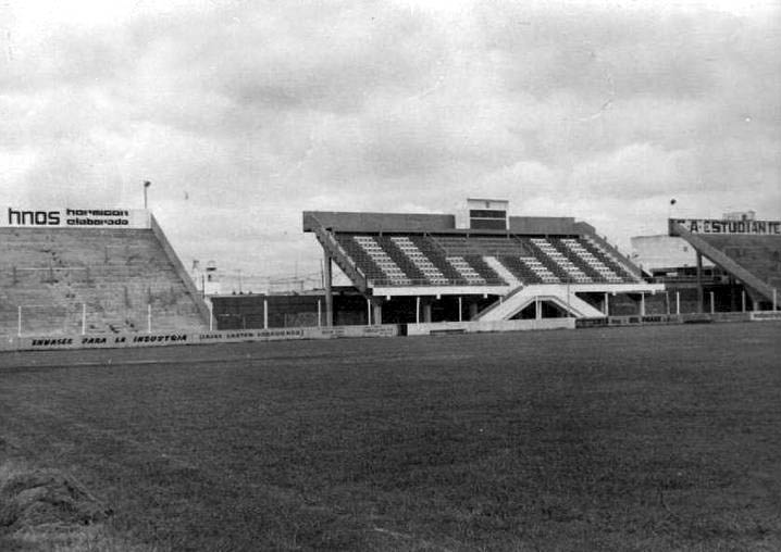 The Estudiantes de BA stadium.